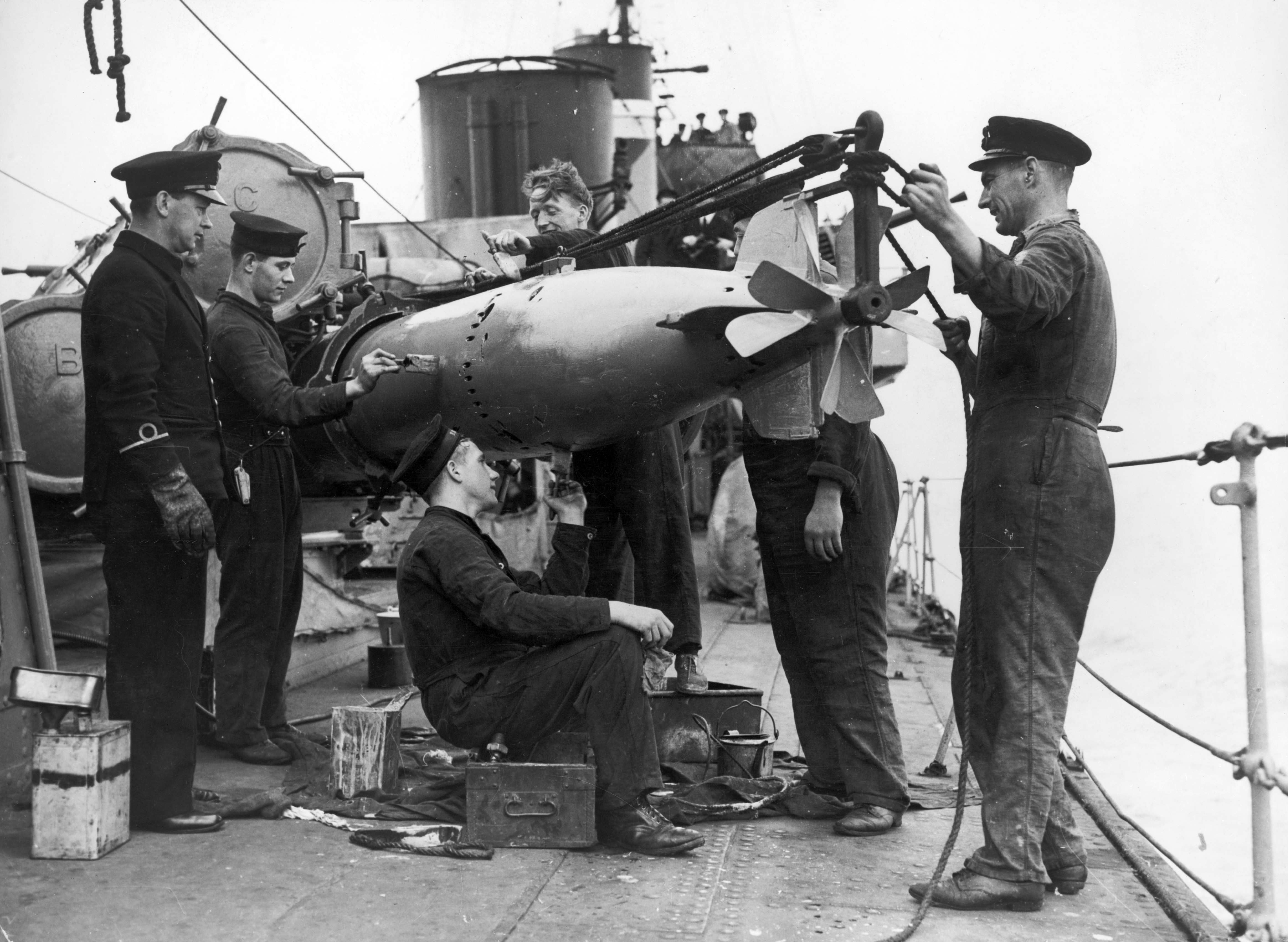 British seamen aboard the Royal Navy destroyer HMS Vanoc (H33) loading a torpedo into the torpedo tube, 16 August 1941.